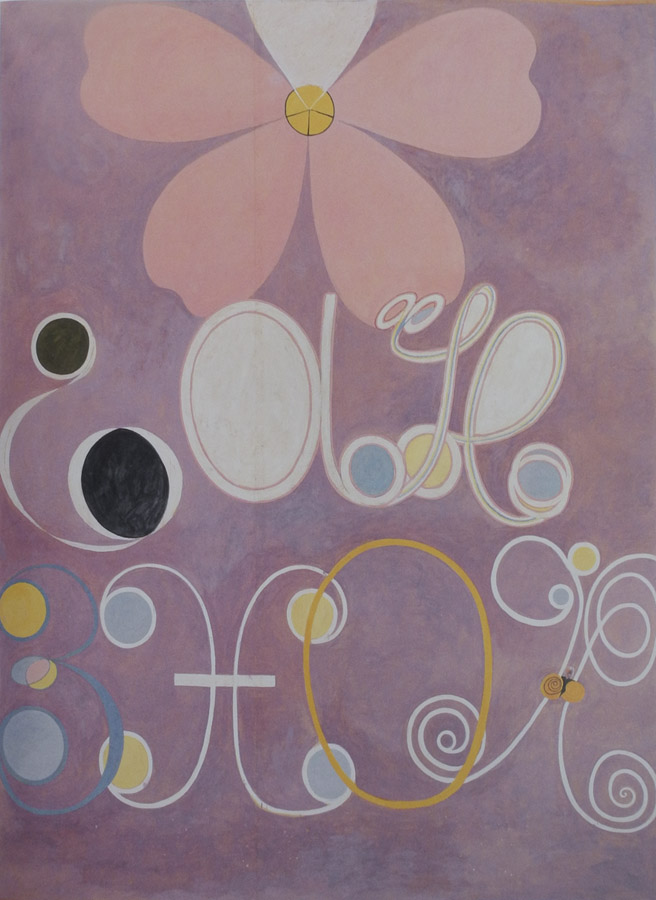 Hilma af Klint